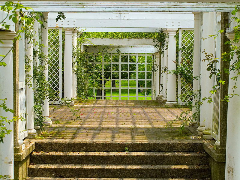 This is the entrance to the Cranford Rose Garden.